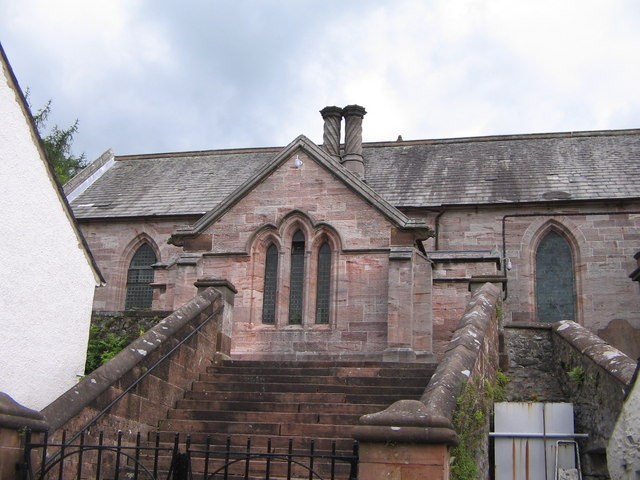 Steps to Tynron Church